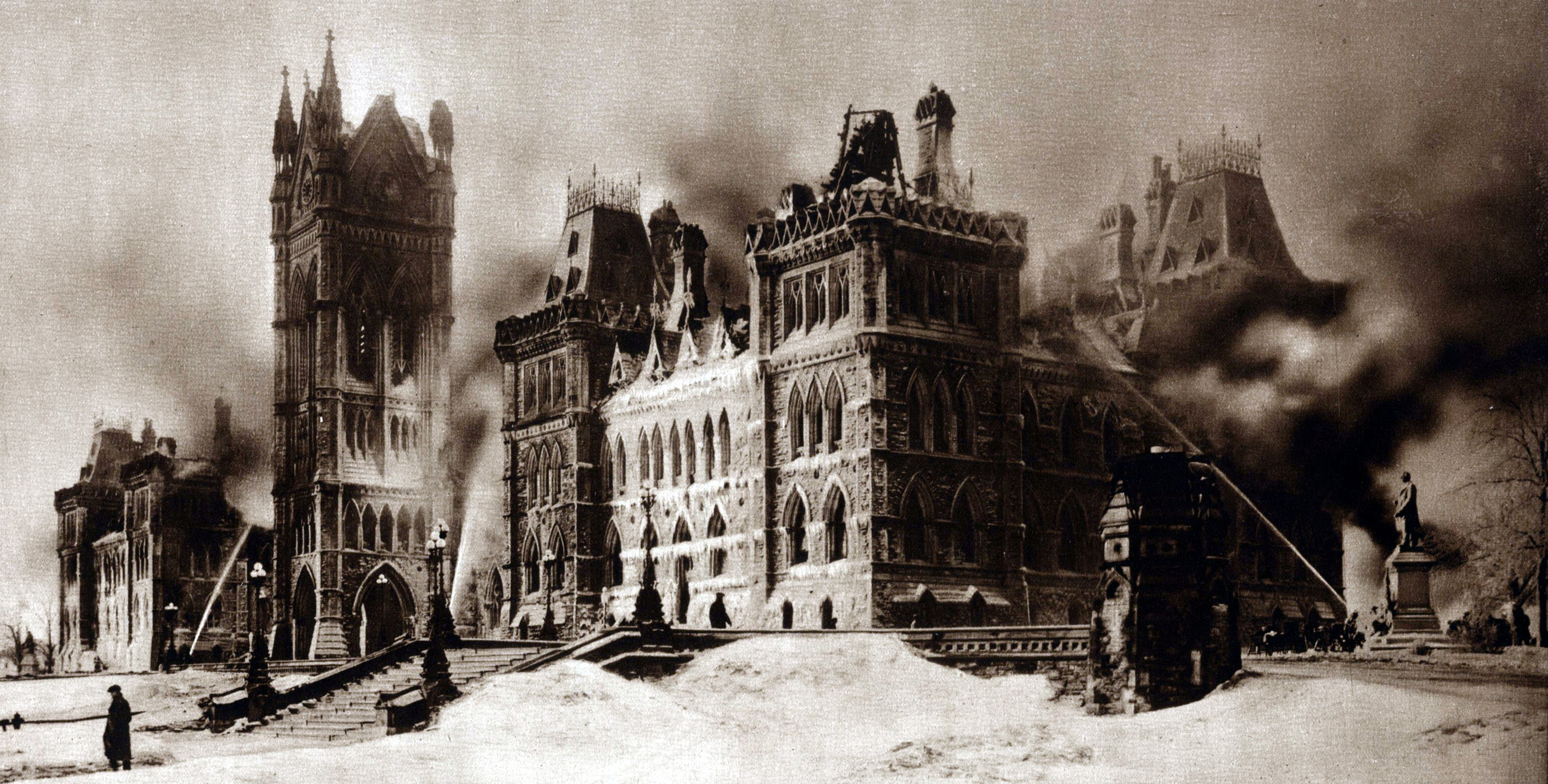 The Parliament buildings in Ottawa the morning after the Great Fire of 1916. Ottawa, Canada.